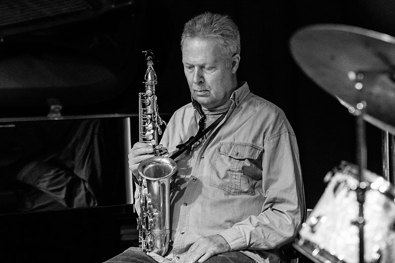 Jesper Zeuthen in Aarhus, Denmark 2019